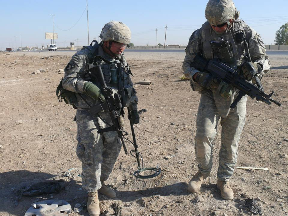 BAGHDAD- Spc. Mario Macias (left), from Fort Worth, Texas, uses a metal detector to search for improvised explosive devices along the Baghdad-Diyala highway with help from Spc. Nathan Huhn, from Rootstown, Ohio. Soldiers from 1st Squadron, 7th Cavalry Regiment, 1st Brigade Combat Team, 1st Cavalry Division conducted multiple combined air insertions along the highway with officers with the Iraqi Federal Police. This mission marked the first time that U.S. Soldiers and Federal Police conducted an air insertion mission into local urban areas.